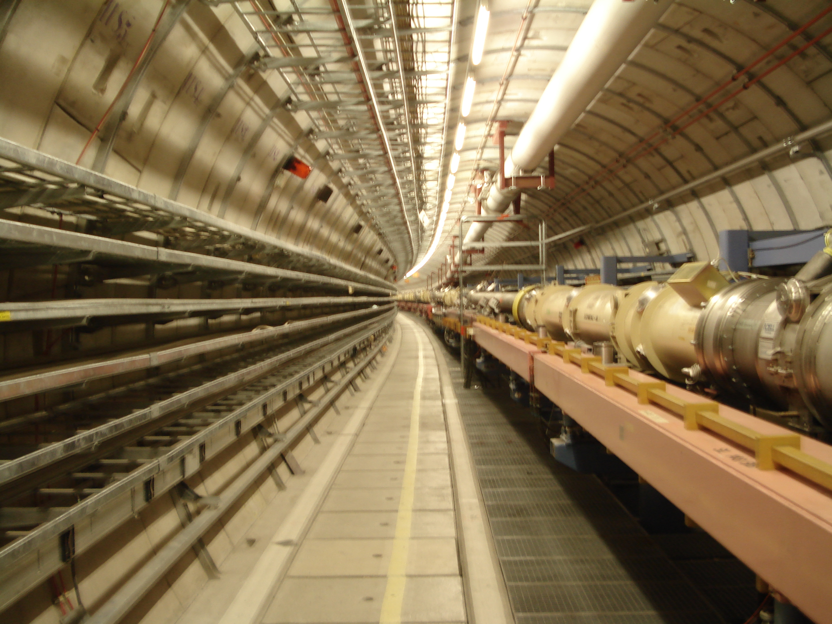 The HERA Tunnel located at DESY in Hamburg Germany